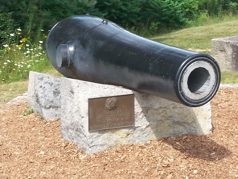 8-inch converted Rodman rifle, lined down from 10-inch smoothbore, Fort Knox, Maine